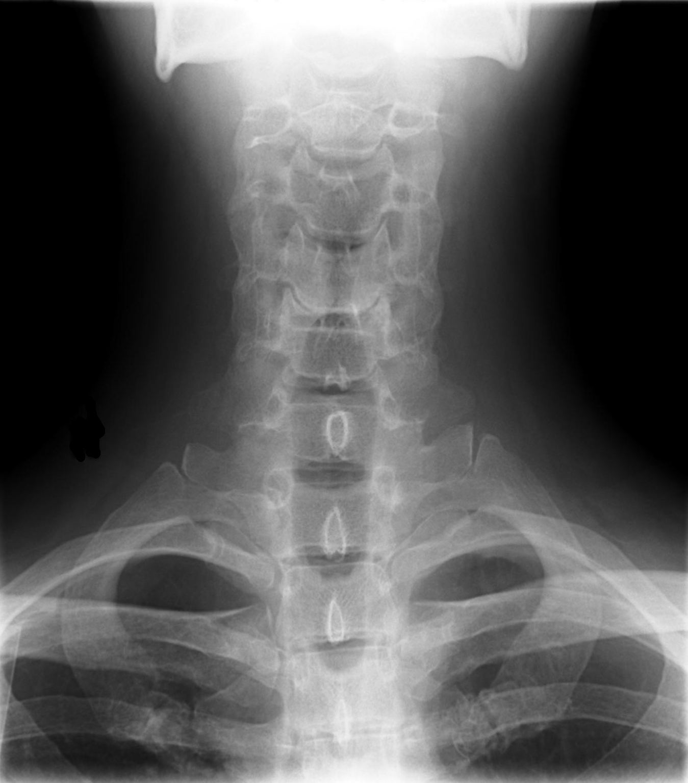 X-ray of cervical spine (neck) AP (front) view. This series of x-rays were part of pre-surgical evaluation to help identify spinal instability. Patient is a 37 year old male with a history of multiple neck traumas with pain and muscle spasms and dental implant in lower jaw. Excerpt from radiologist's report: FINDINGS: Five views of the cervical spine, including flexion and extension, were performed. There is no evidence of fracture, bone destruction, or malalignment. There are degenerative bone and is changes at C5-6. There is no evidence of cervical instability on the flexion and extension views. The facet joints are well aligned. Bony spurring is narrowing the C5-6 neural foramina bilaterally. IMPRESSION: Degenerative changes at C5-6. No evidence of instability.